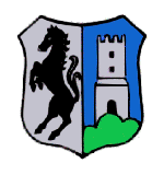 Coat of arms of Untrasried.